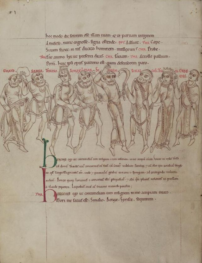 Terence's Comedies, in Latin, with Romanesque drawings comprising the latest version of the Late Antique cycle of scene-illustrations, St. Albans Abbey, mid 12th century. The first of the four artists (fols. 2v-17v) is identifiable as "The Master of the Apocrypha Drawings" in the Winchester Bible. The illustrations for Andria V.1-2 at fol. 28r-v are missing in the Carolingian witnesses.; 55v